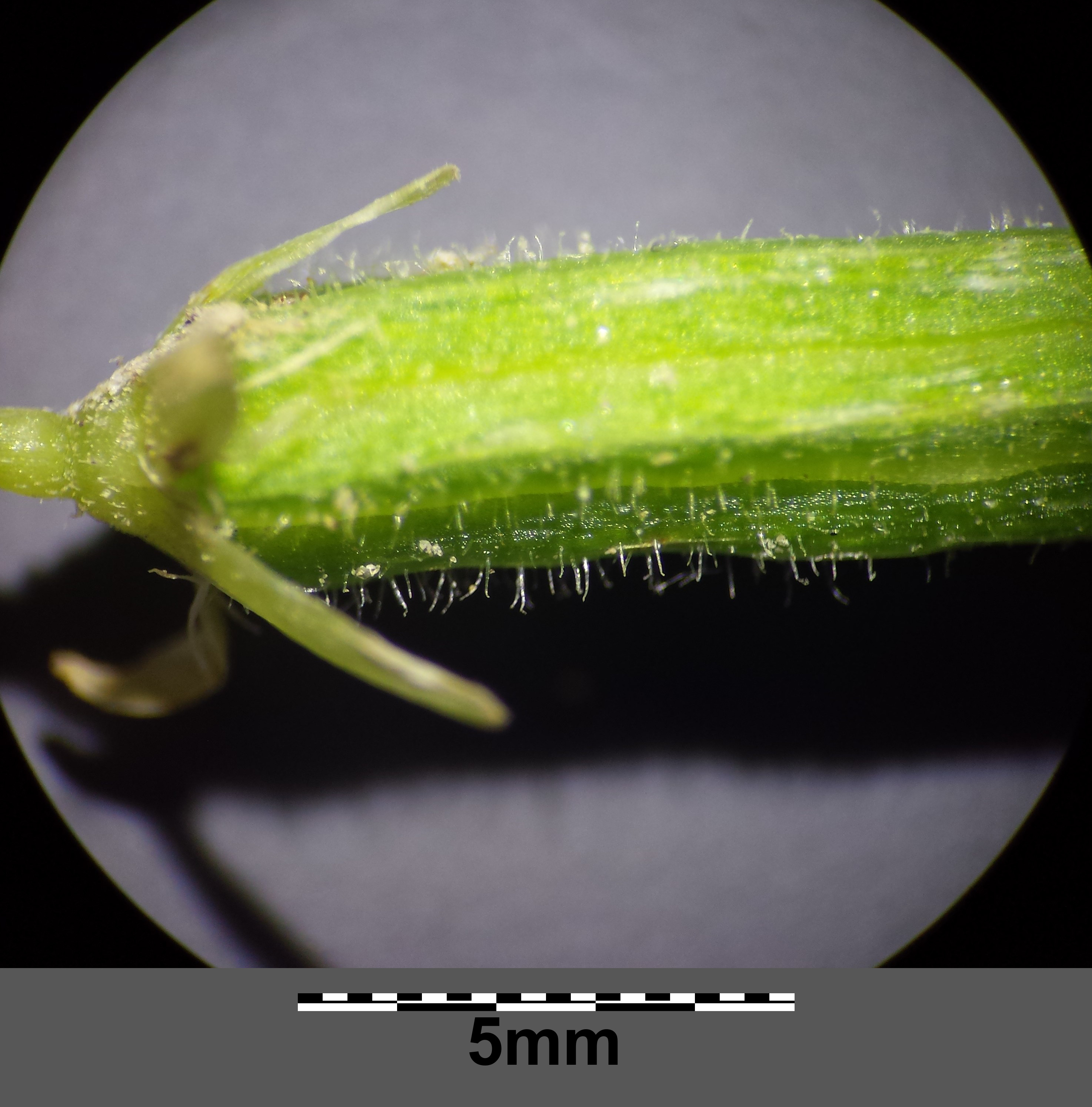 Fruit with hairs Taxonym: Oxalis stricta ss Fischer et al. EfÖLS 2008 ISBN 978-3-85474-187-9 Location: to the south of Schleinbach, district Mistelbach, Lower Austria - ca. 275 m a.s.l. Habitat: sand pit